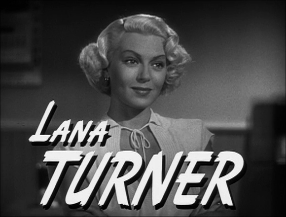 Cropped screenshot of Lana Turner from the trailer for the film The Postman Always Rings Twice.